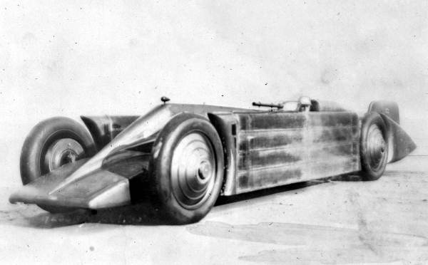 Golden Arrow land speed record car, driven to 230 mph by Henry Segrave in 1929 at Daytona Beach.